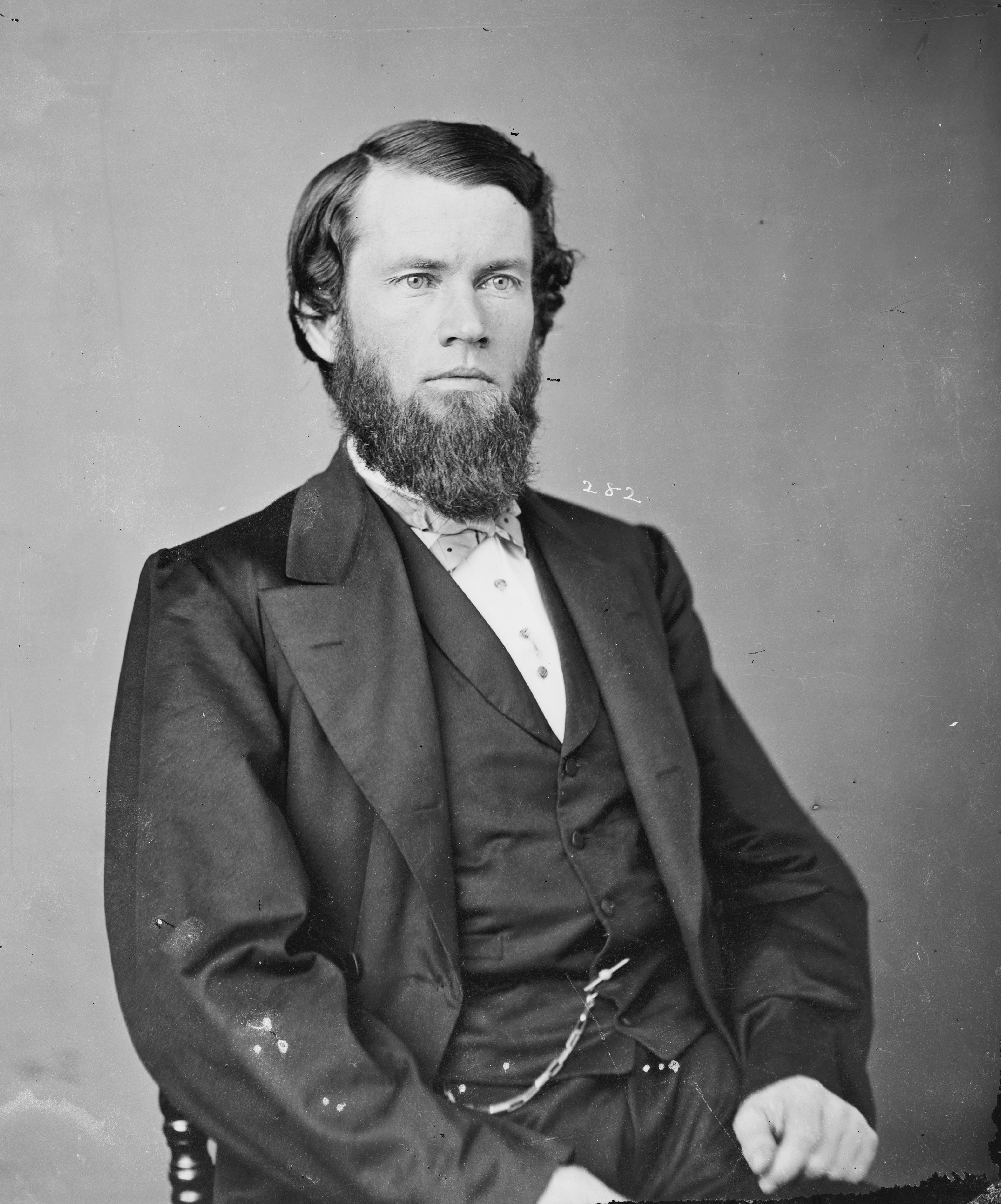 Thomas W. Ferry. Library of Congress description: "Ferry, Hon. Thomas White of Mich. Delegate to Republican Nat. Convention at Chicago - 1860"